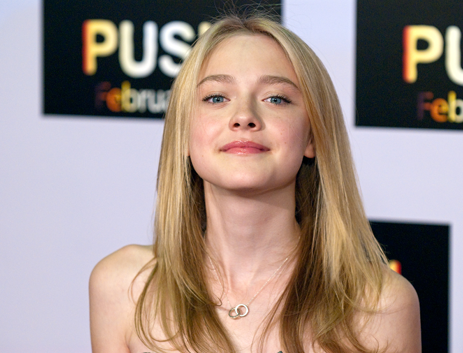 LOS ANGELES - JANUARY 29, 2009: Actress Dakota Fanning arrives at the premiere of "Push", Mann Theater, Westwood.